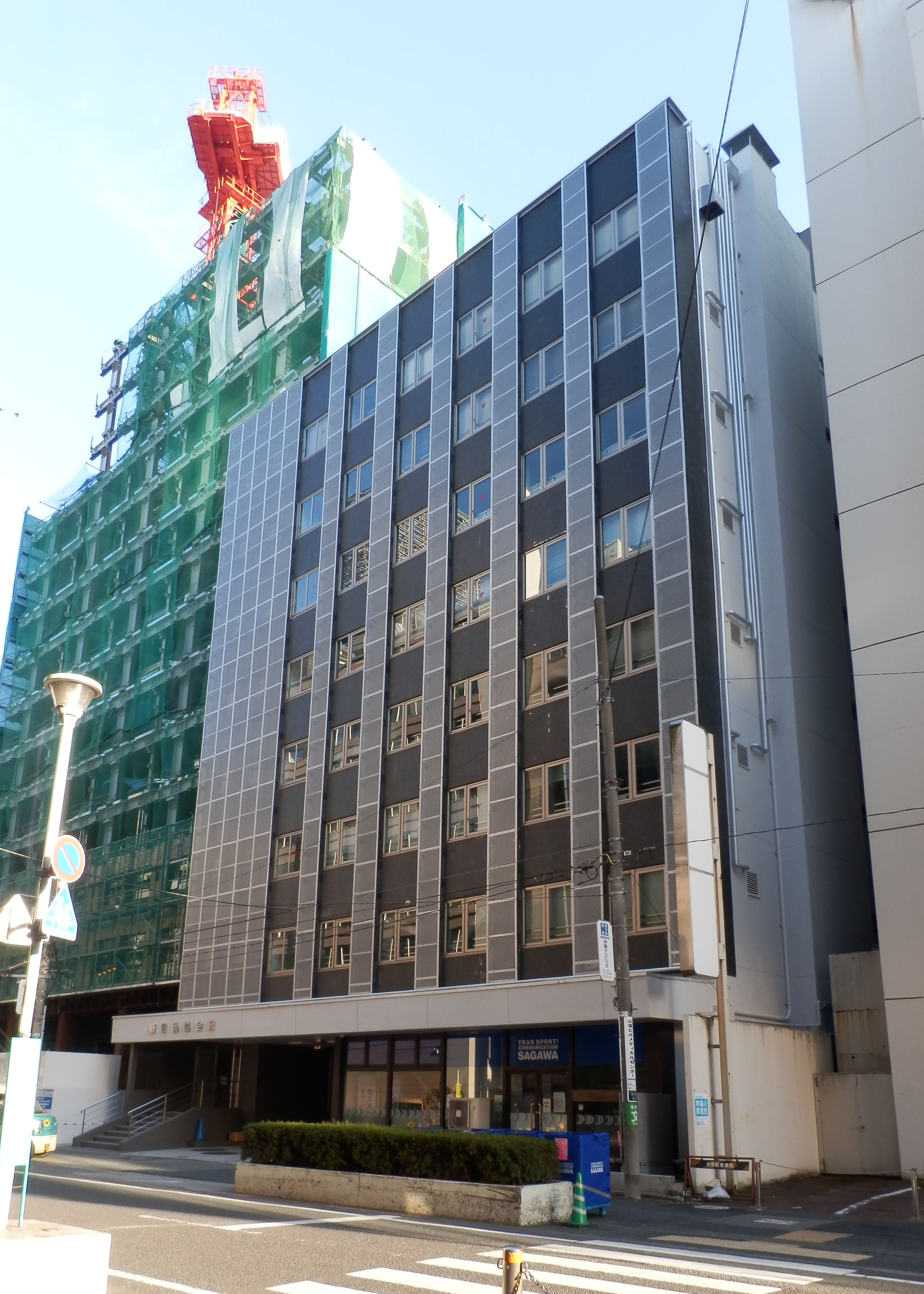 Shinjuku Nokyo Kaikan (Office building in Tokyo, Japan)